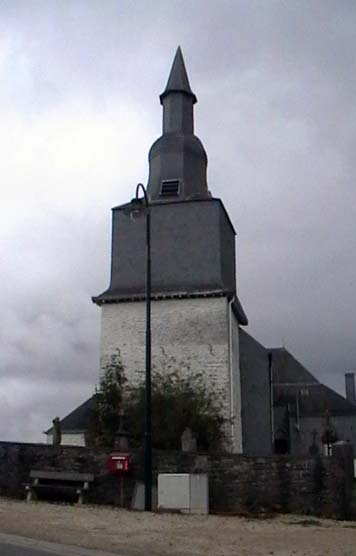 Church of Saint-Pierre (Libramont) Walon: Eglijhe di Sint-Pire-dilé-Libråmont